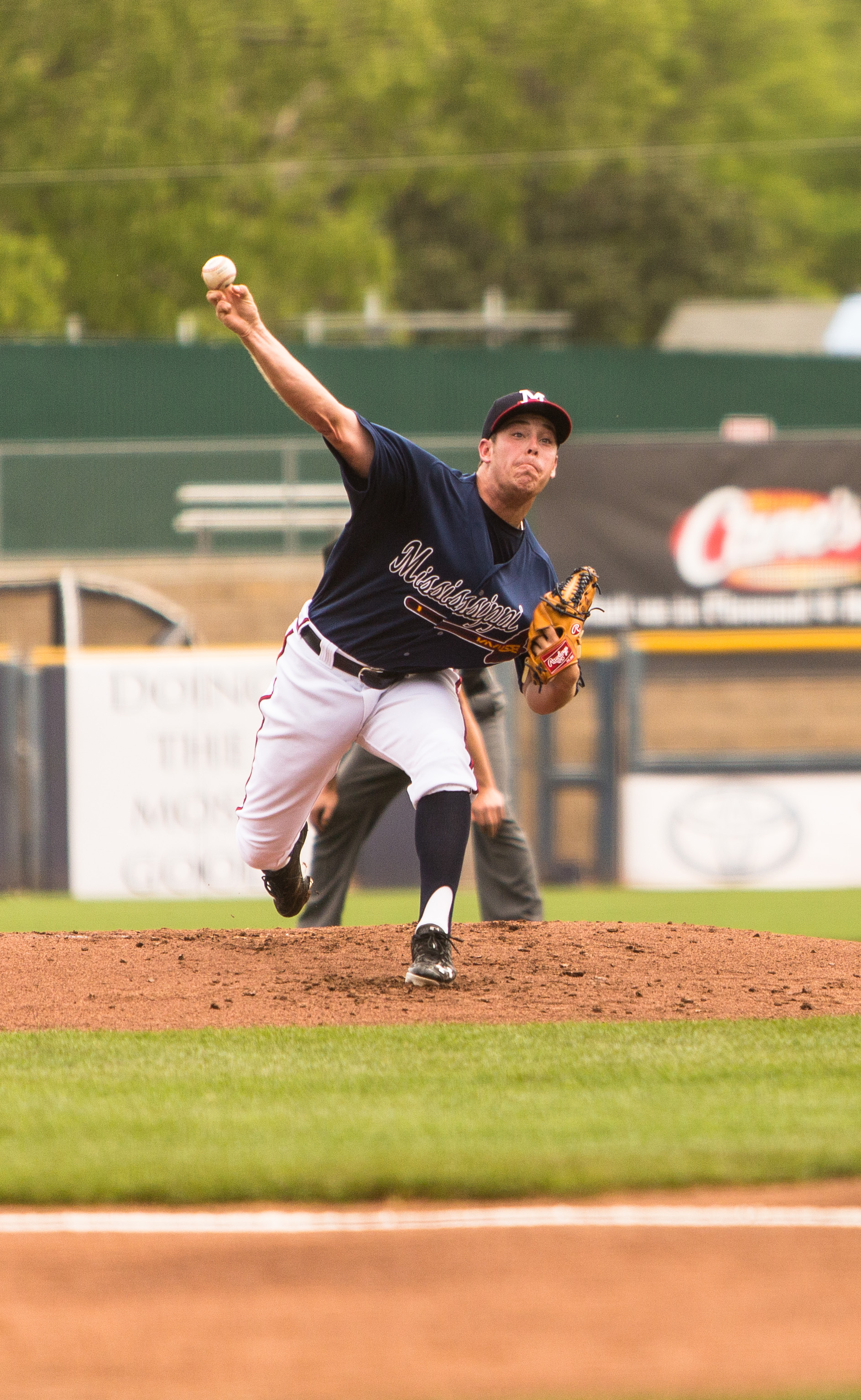 J.R. Graham pitching for the AA affiliate of the Mississippi Braves at Trustmark Park in Pearl, Mississippi